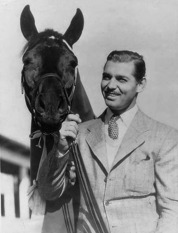 Photo of Clark Gable and his race horse, Beverly Hills.